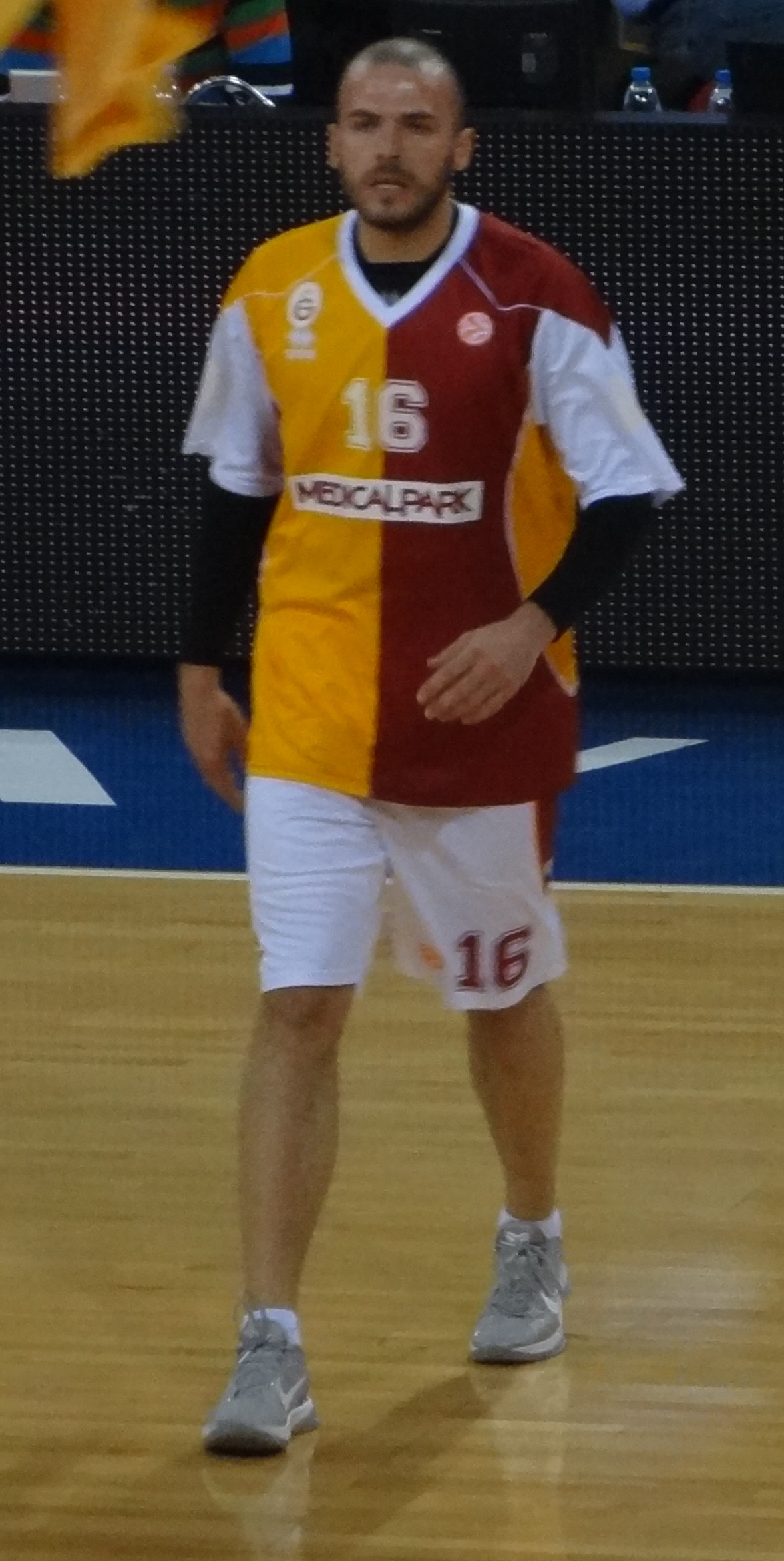 Evren maç öncesi Efes